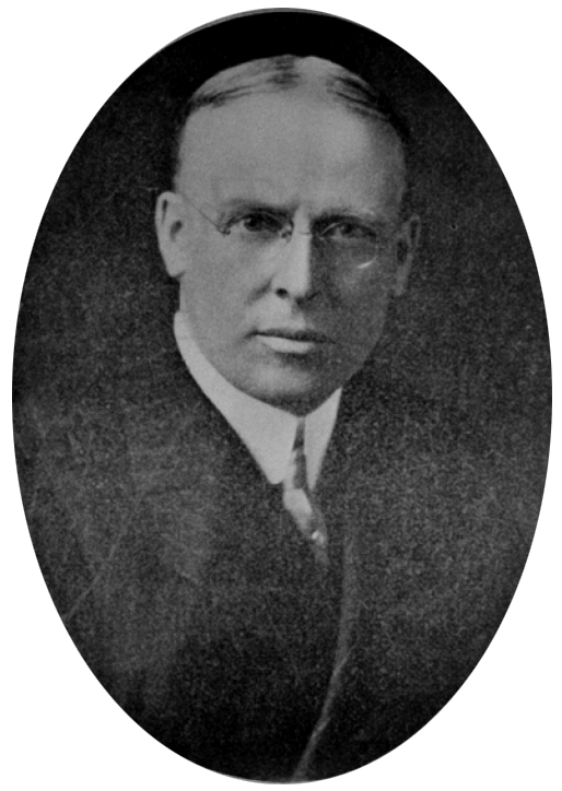 Taken from Calumet and Hecla Mining Company Semi-Centennial F572.C8C3. [Head and shoulders image of James McNaughton]